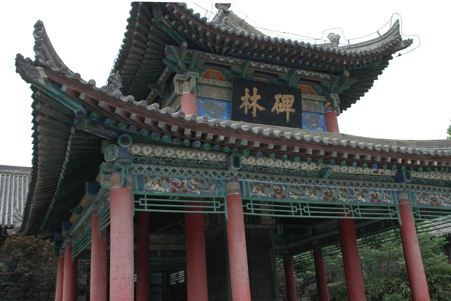 Entrance to the Stele Forest Museum, Xi'an